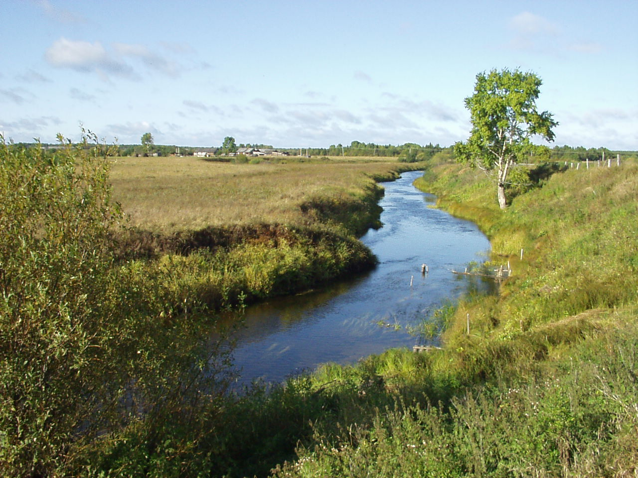 Tserkovnoye settlement, Plesetskiy rayon, Arkhangelsk oblast, Russia